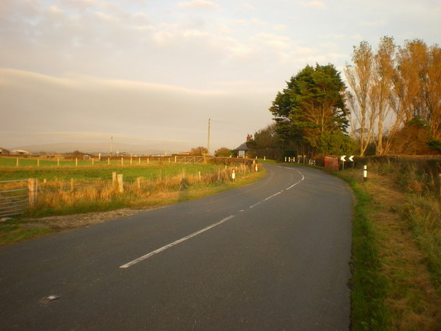 A588 at Mill House Bridge